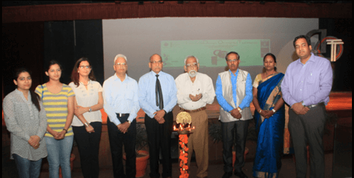 Anil Laul with his team for a guest lecture at Lovely Professional University in Punjab, India